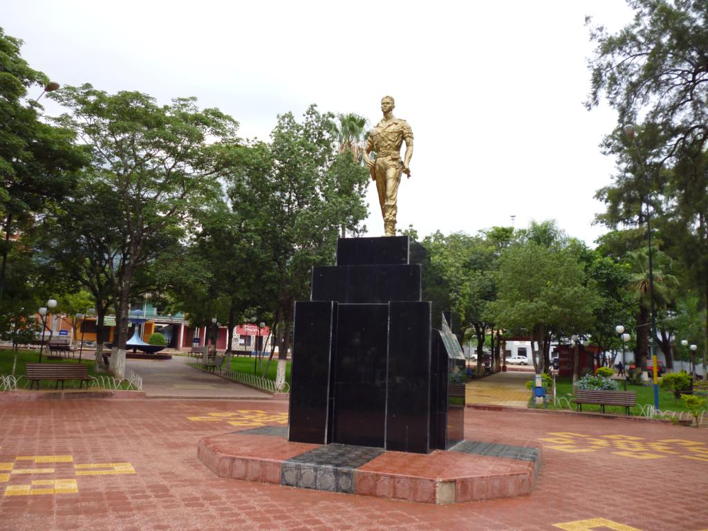 Camiri Central Park, December 2011